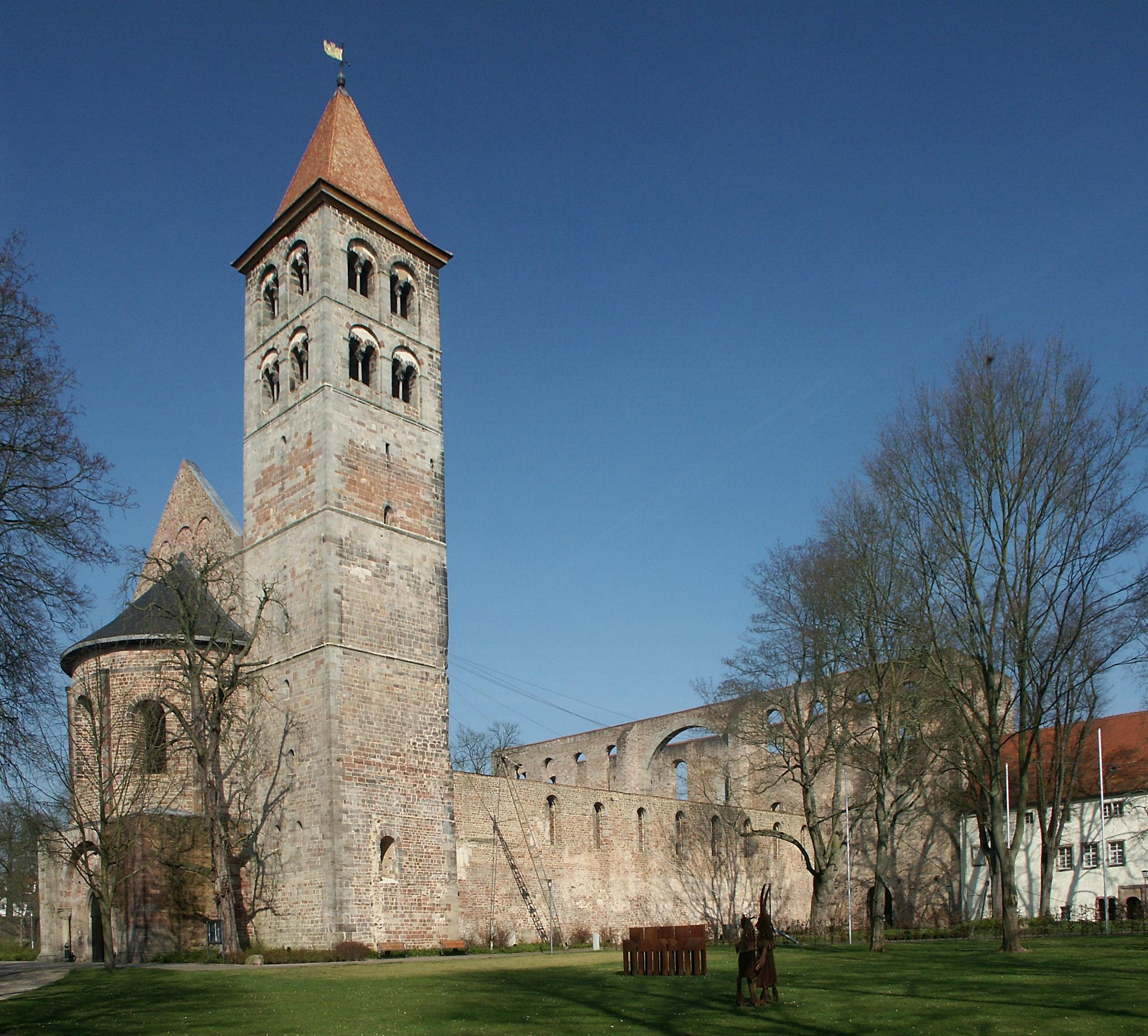 south western view of the Bad Hersfeld Cathedral